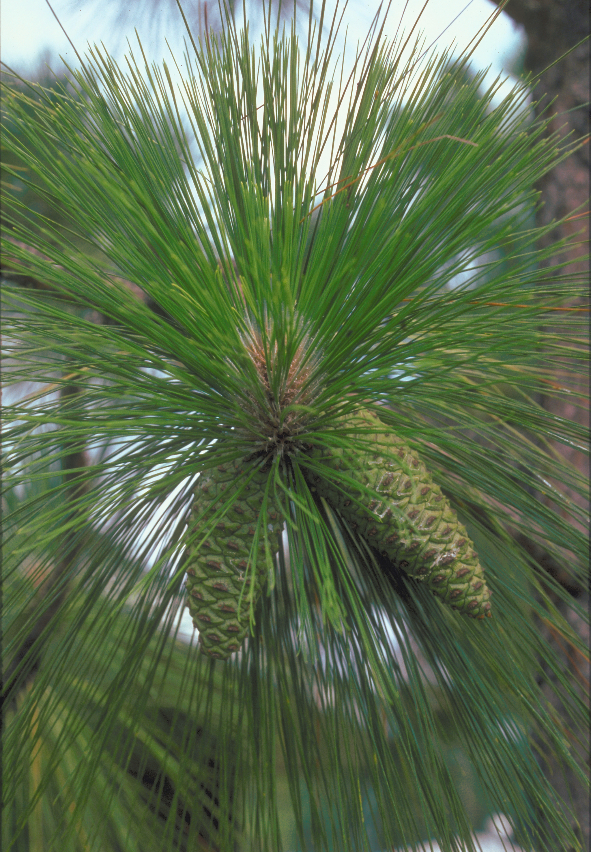 Foliage and cones of Longleaf Pine Pinus palustris. USDA Forest Service Southern Research Station.